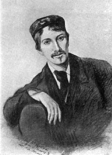 Robert Louis Stevenson at 26